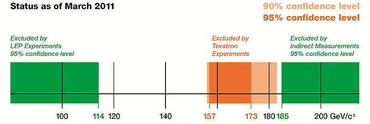 Diagram showing excluded mass regions for the Higgs boson as of March 2011.